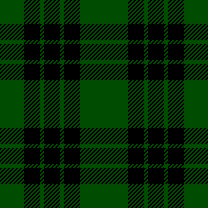 Graham tartan, as published in the Vestiarium Scoticum. Modern thread count: G24 Bk8 G2 Bk8.